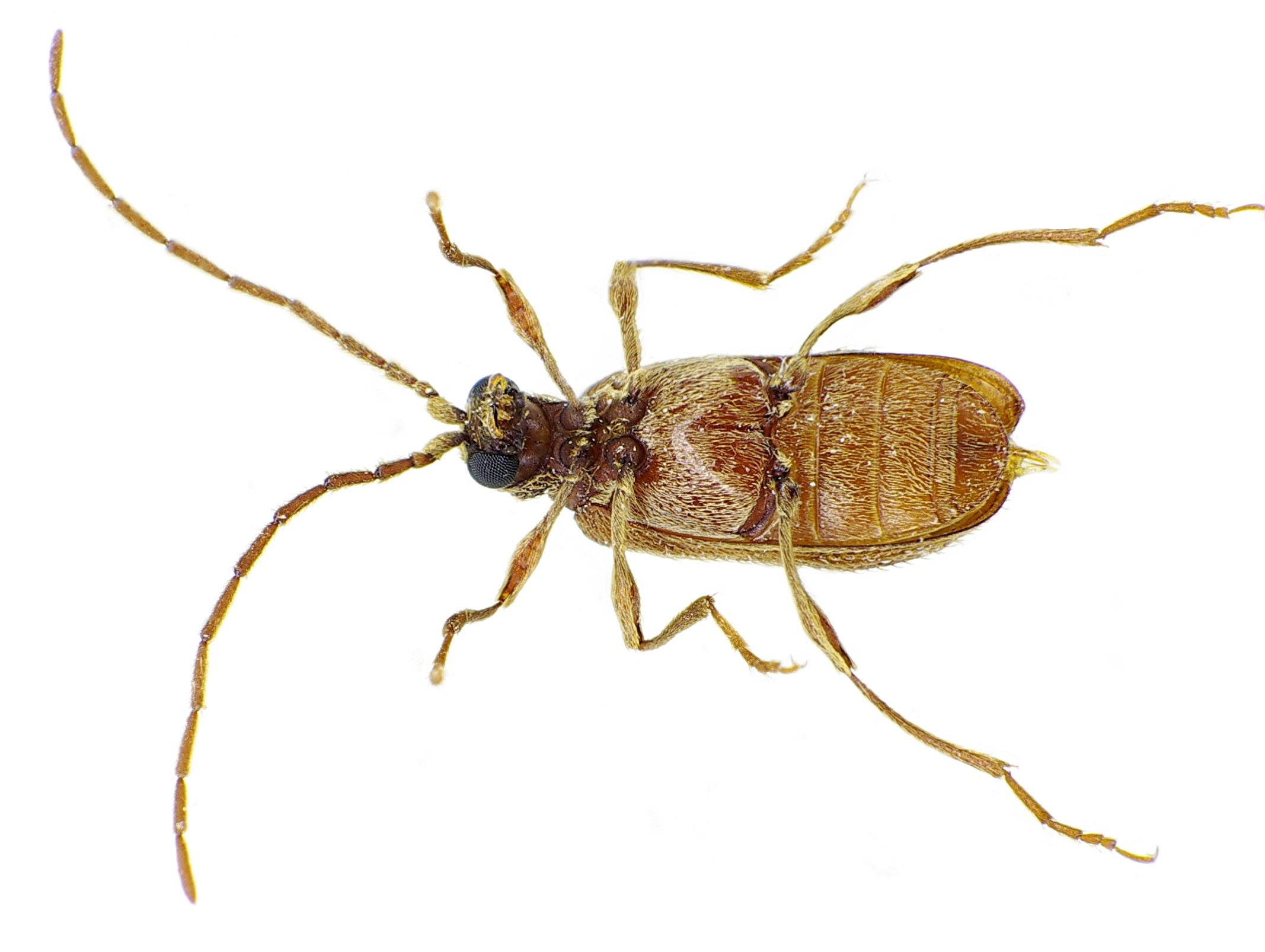 Ptinus fur, male, from Southern Germany, caught 2009-08-21 within the house